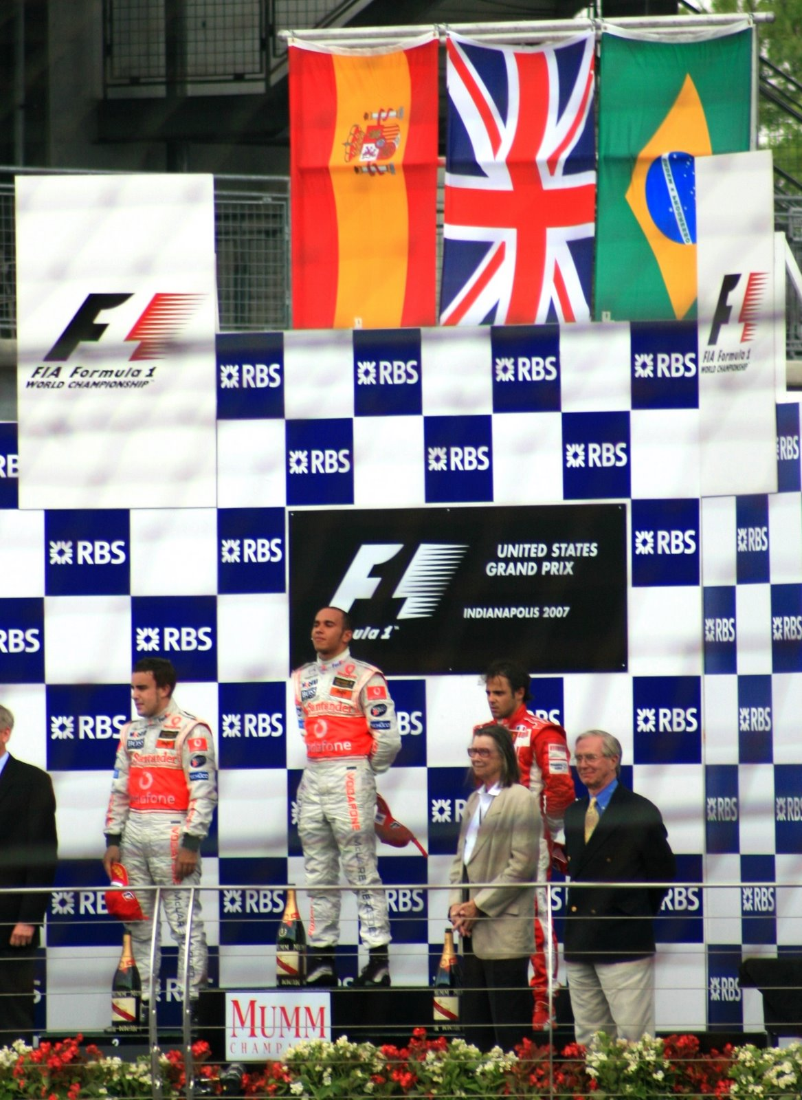 Podium standings for US GP 2007